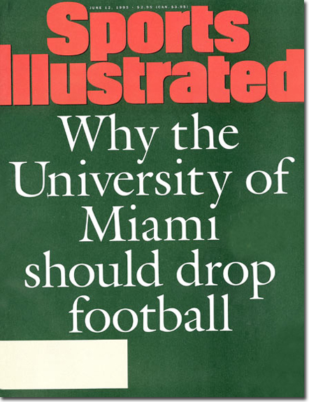 Cover of the June 12, 1995, issue of Sports Illustrated.